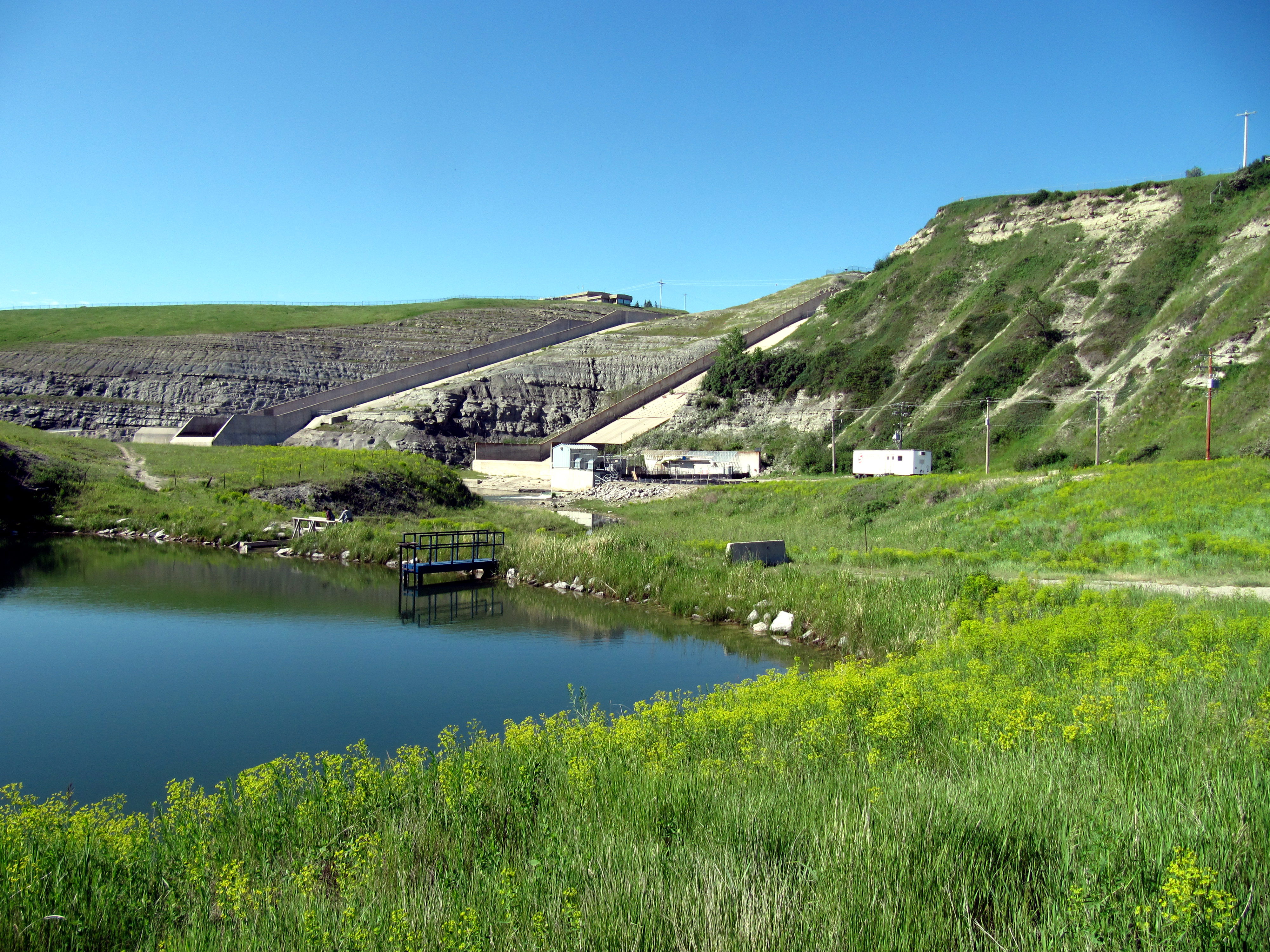 Strata of the St. Mary River Formation (upper part) exposed at the spillways of the St. Mary Reservoir, Alberta.